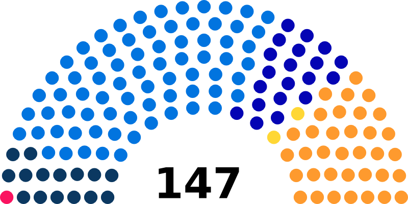 Seats diagramme of Swiss National Council (1890)